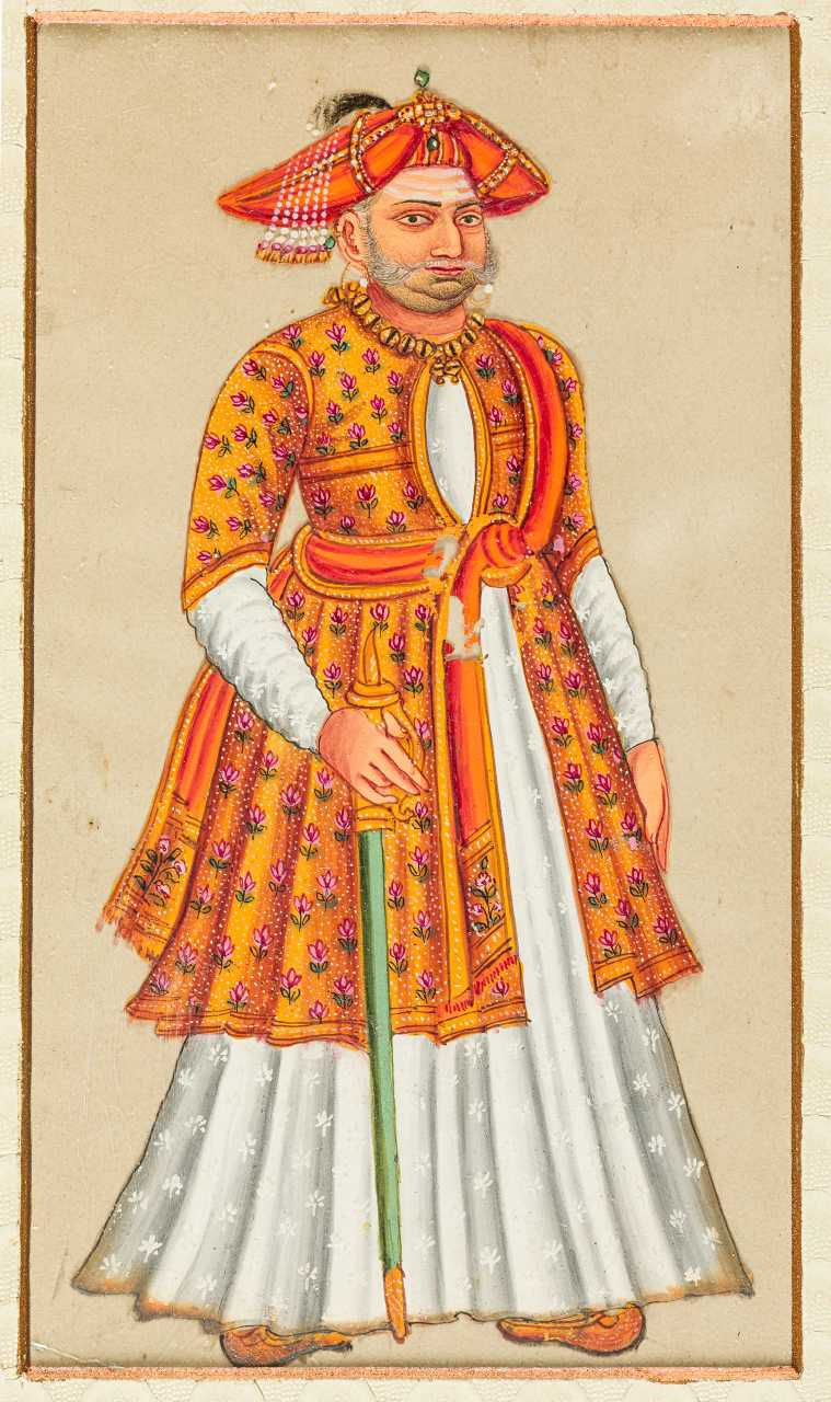 A minutre painting of middel-aged King Serfoji II (1777-1832) He was installed as ruler of Thanjavur in 1798 by the British. Right from the very beginning of the Danish era in Tranquebar in the 1620s royal portraits were recognised as being useful instruments in the political and social negotiations with allies. The interest in naturalistic portraiture developed at the court of Thanjavur, especially during the reign of Serfoji II. The presence of both European artists and Indian artists trained in European techniques made the growth of new forms of portraiture possible especially in the late eighteenth century. This is clearly seen in the hybrid style of miniature paintings known as company paintings. In addition to his deep insight into Indian knowledge systems Serfoji II also showed an extensive interest in European art and science along with his deep insight in Indian knowledge systems. During his reign royal paintings were displayed in his Thanjavur palace, for instance in the Durbar Halls. They were also used as gifts in the courtly culture of gift exchange, in which the Europeans also participated in. In the early part of the nineteenth century this minuture painting entered the Ethnographical Collection of the Royal Art Museum in Copenhagen, now part of the National Museum of Denmark. Miniature painting on mica, c. 10 cm high and 6 cm wide, artist unknown, before 1830.